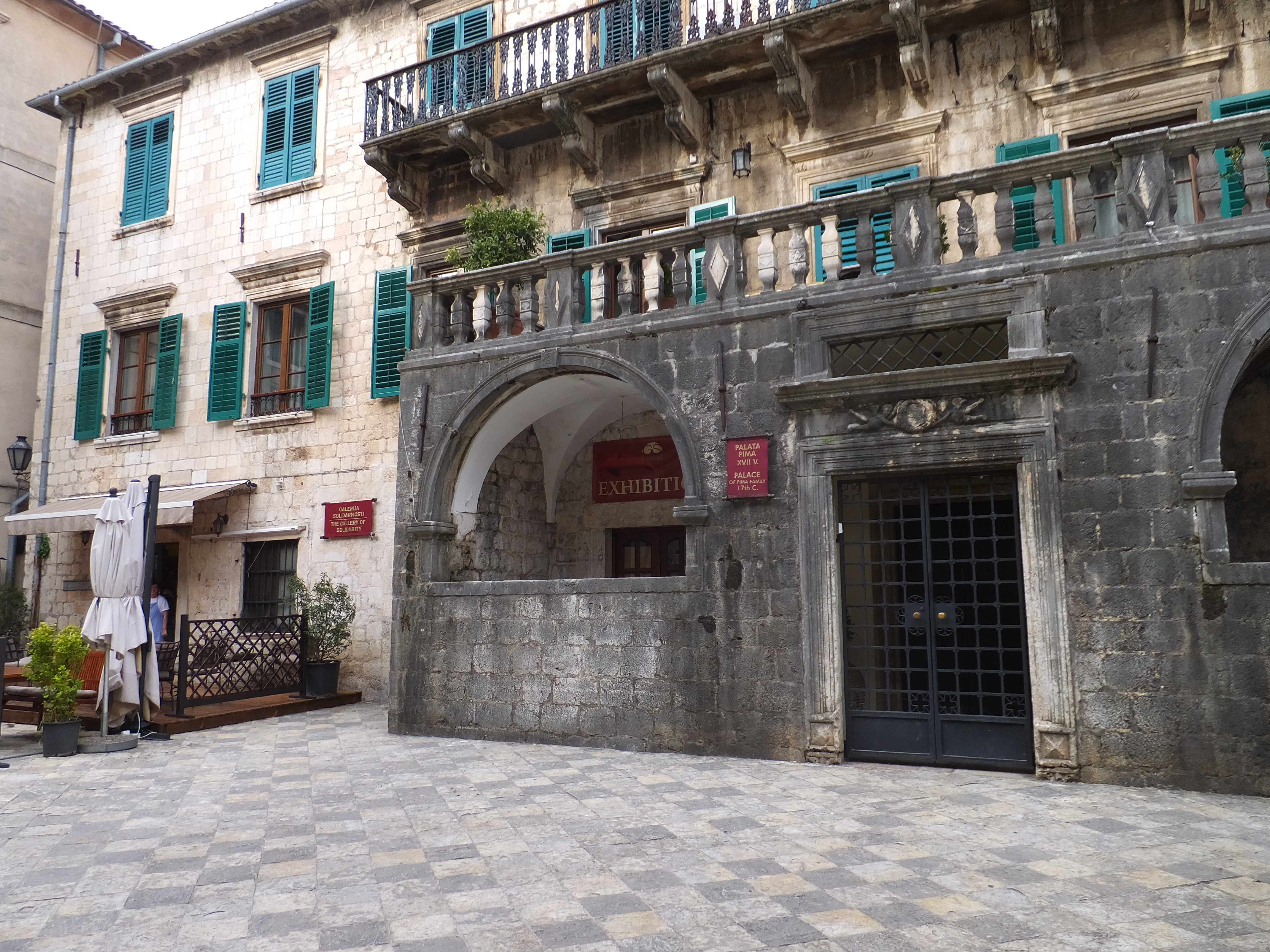 Palace of Pima Family